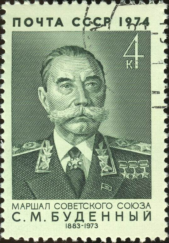 A USSR stamp, Military persons of the USSR